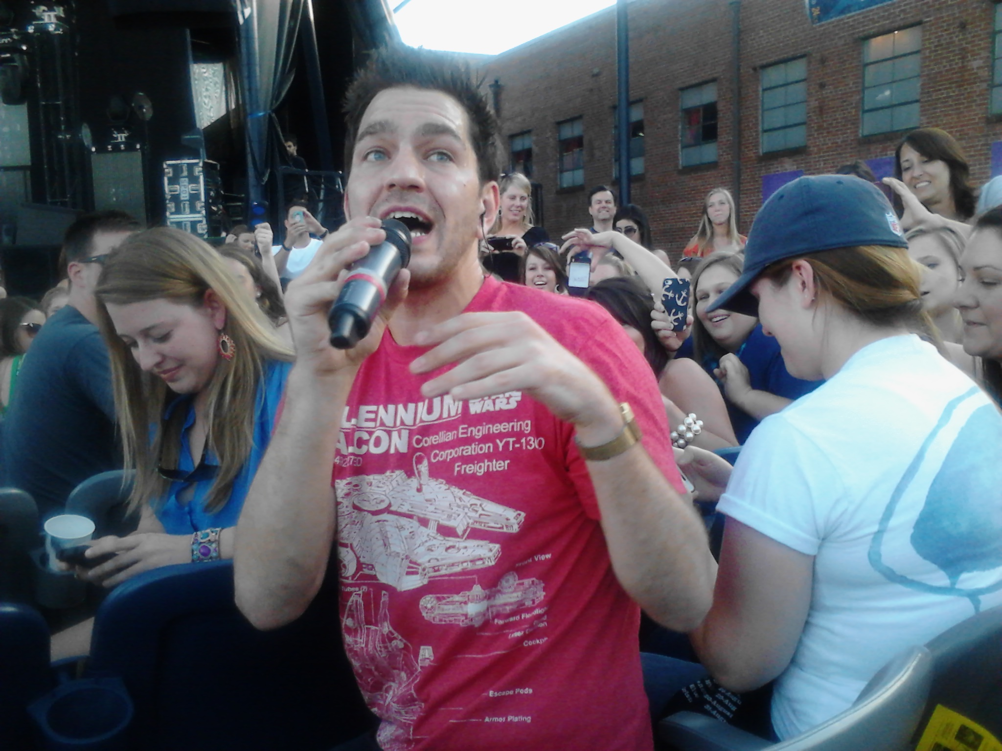 Andy Grammer singing in the crowd at Time Warner Cable Uptown Amphitheatre in Charlotte, North Carolina.